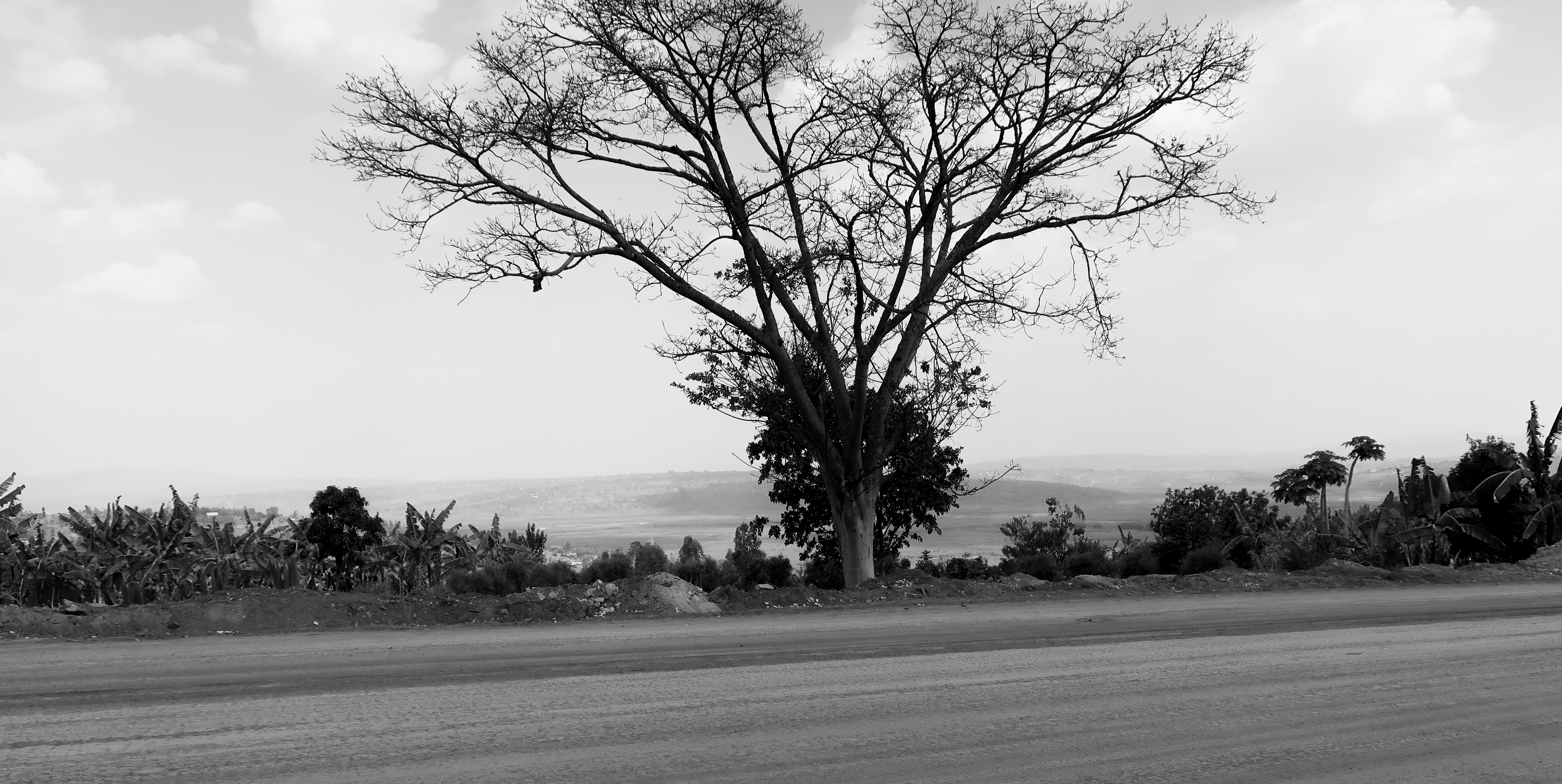 I was just going to Bugesera District and found this tree on the road, then took picture of it.